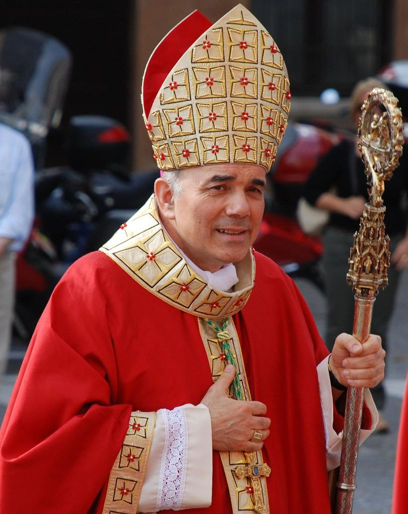 Andrea Bruno Mazzocato vescovo di Treviso